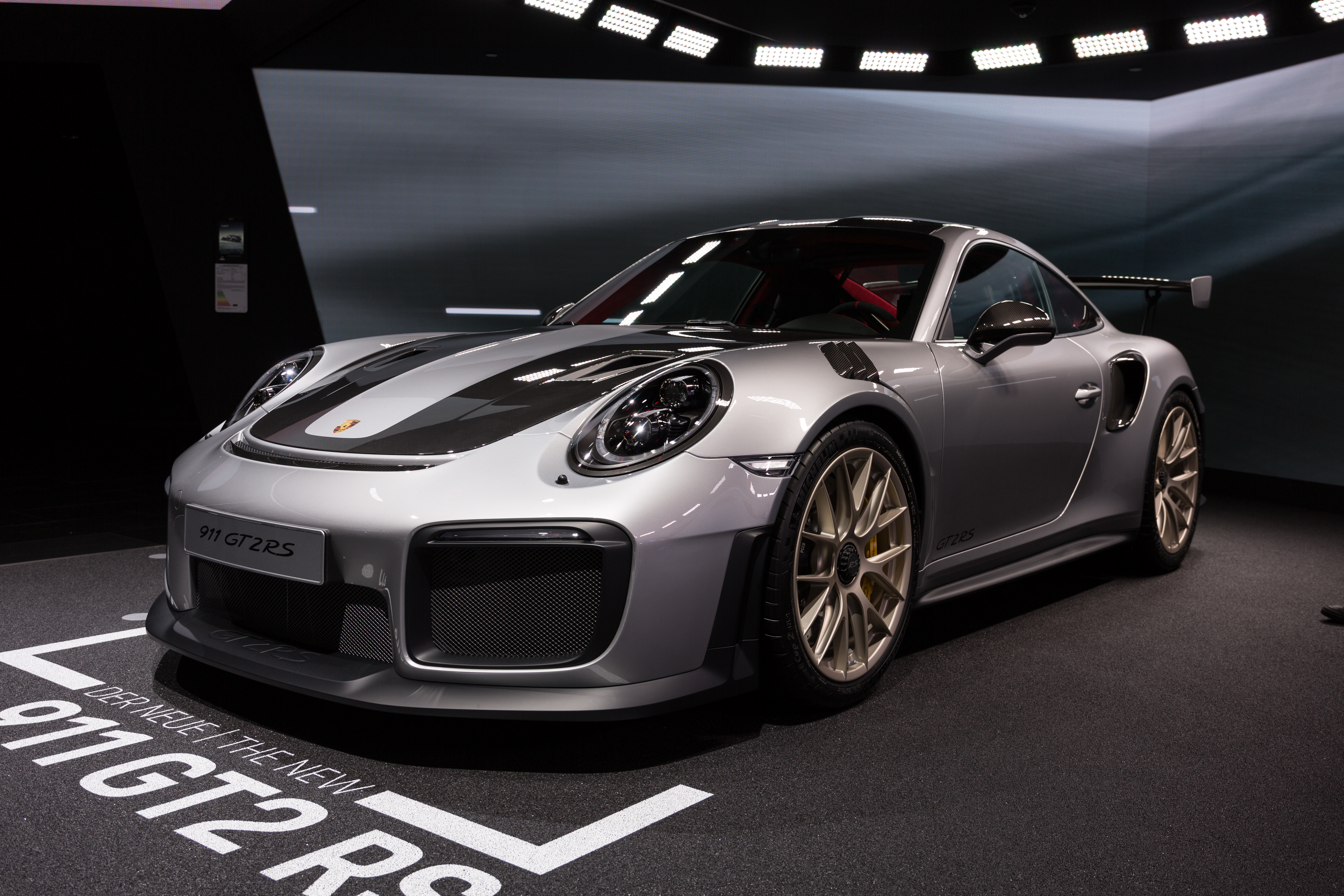 Porsche 911 GT2 RS, IAA 2017